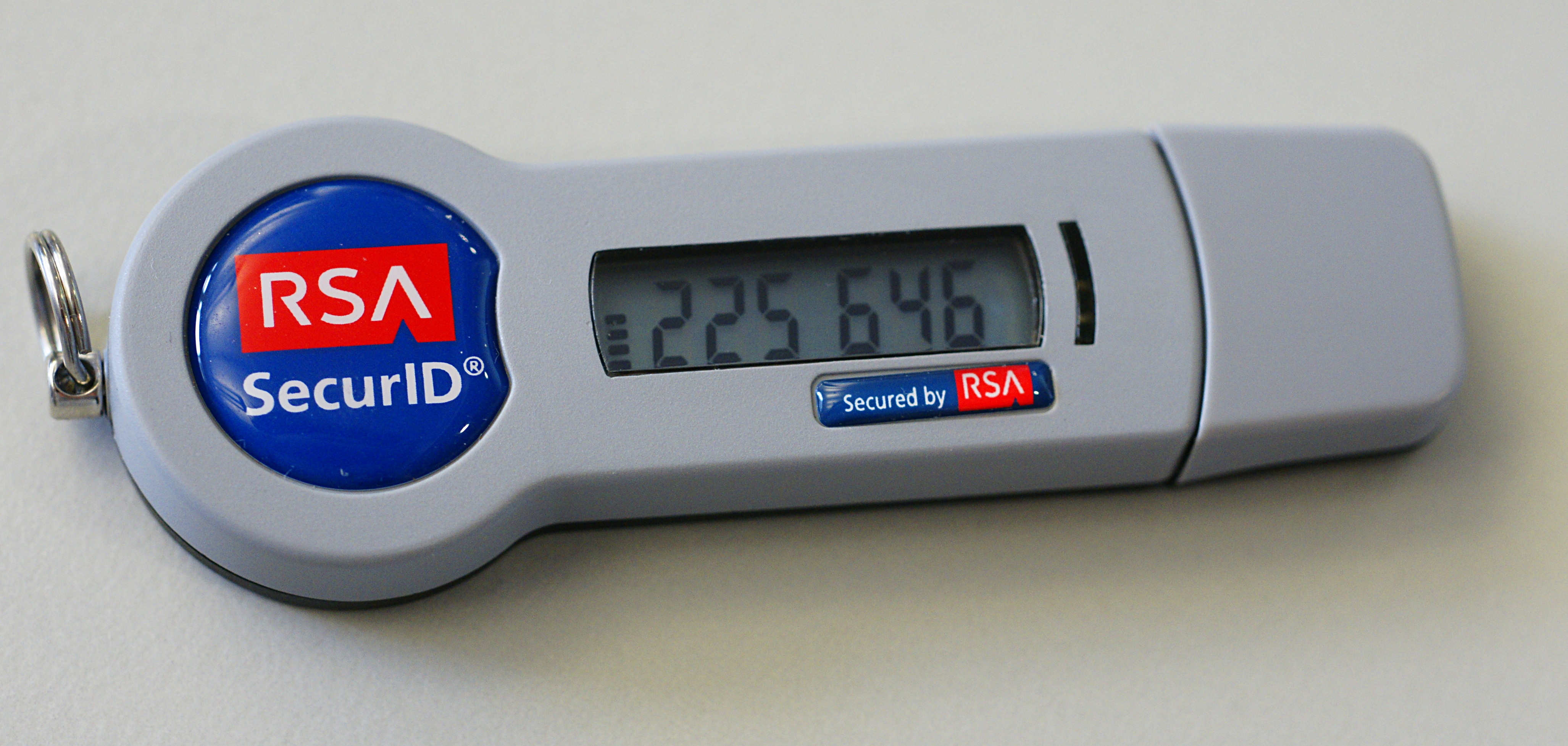 An RSA SecurID SID800 token with USB connector